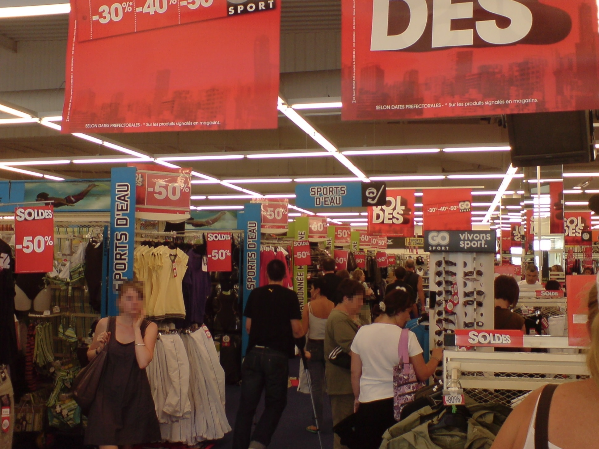 Photo taken in a store during a major sale